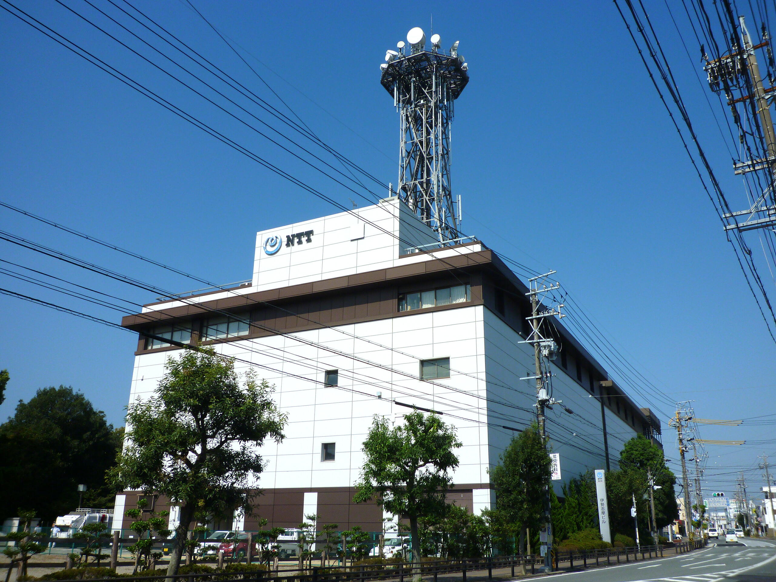 The "NTT Ise-Shima Building" in Ise City,Mie Prefecture,Japan.